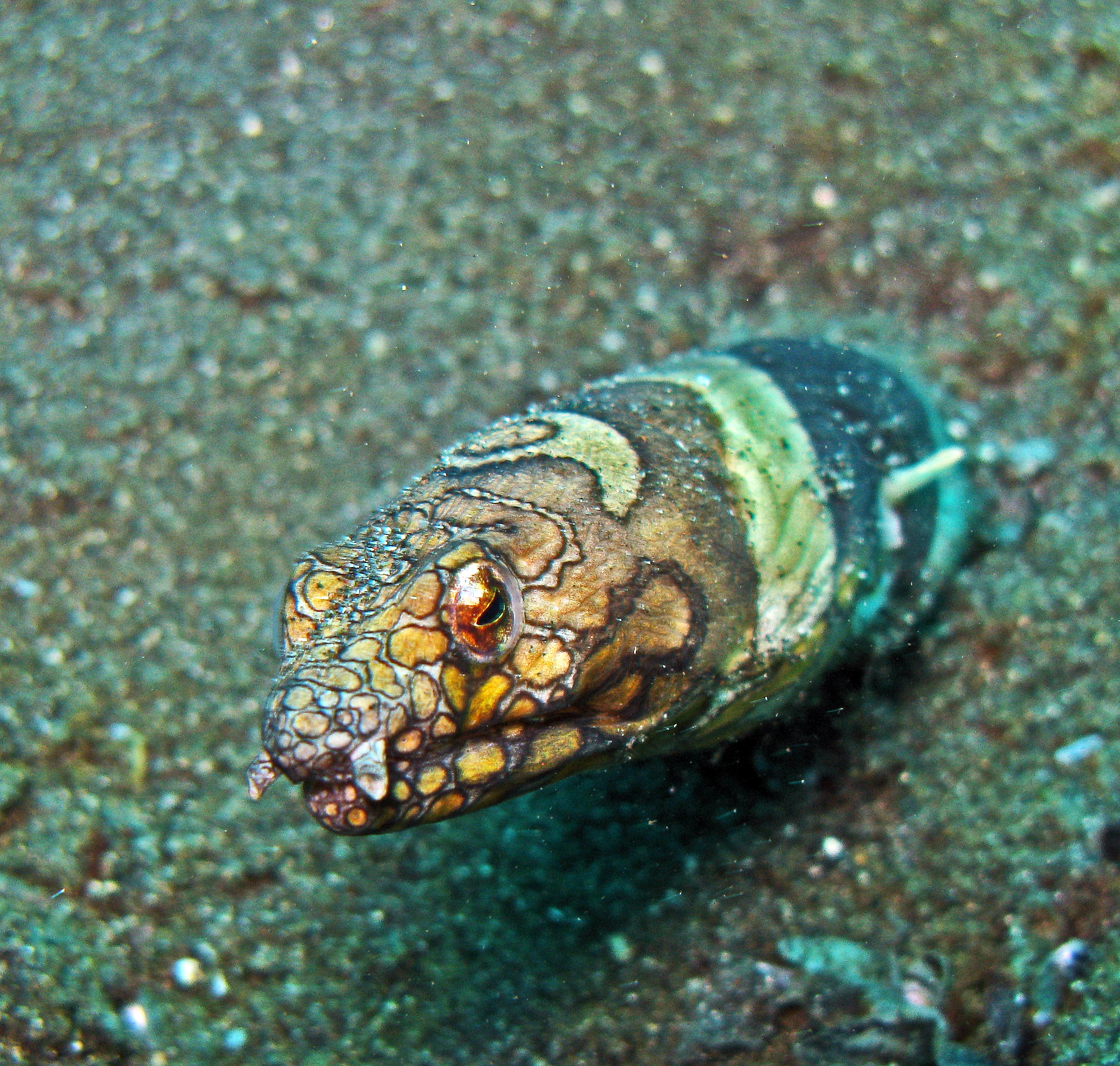 Napoleon snake eel - Ophichthus bonaparti; Indonesia - North Sulawesi - Lembeh Street